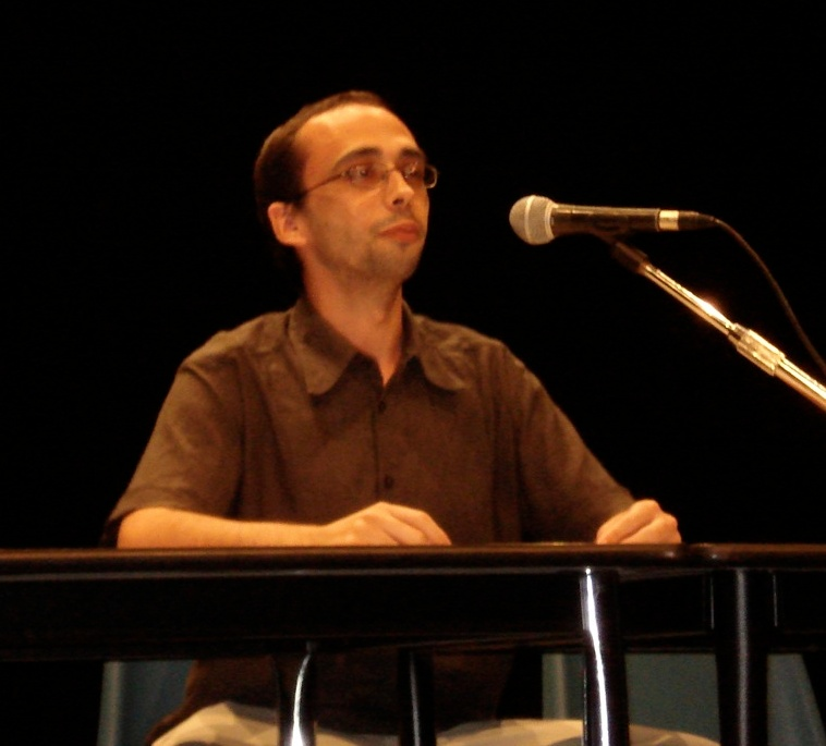 The lawyer David Bravo (specialist in computer law and copyright) giving a lecture at Granada Byte Festival 2007